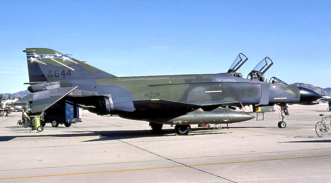 196th Tactical Fighter Squadron McDonnell F-4C-20-MC Phantom 63-7644. Now on static display, Arnold AFB, Tennessee